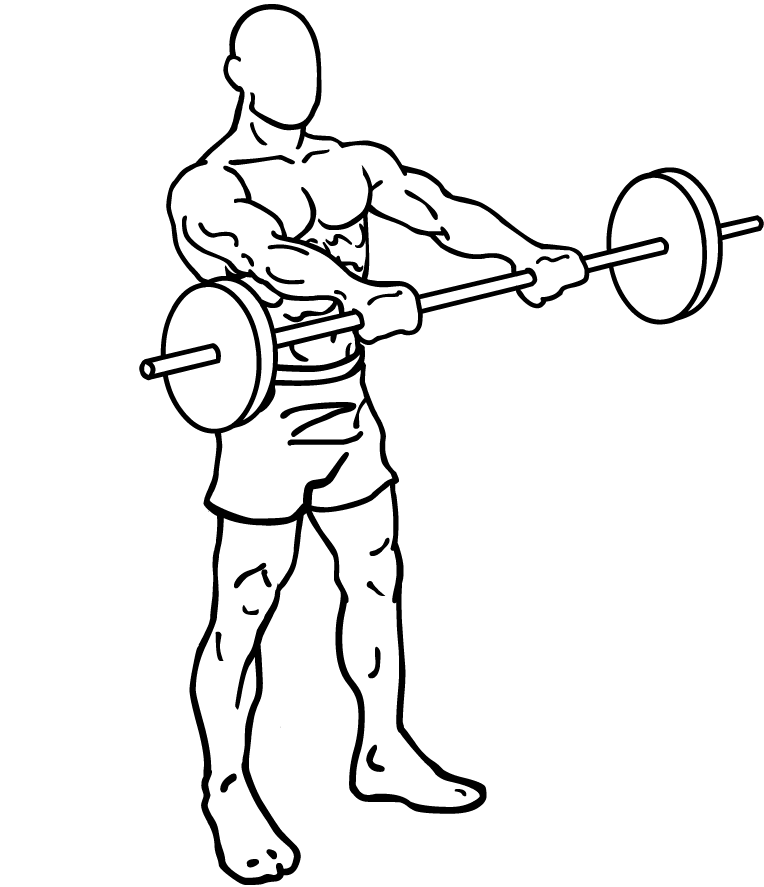 an exercise of shoulders